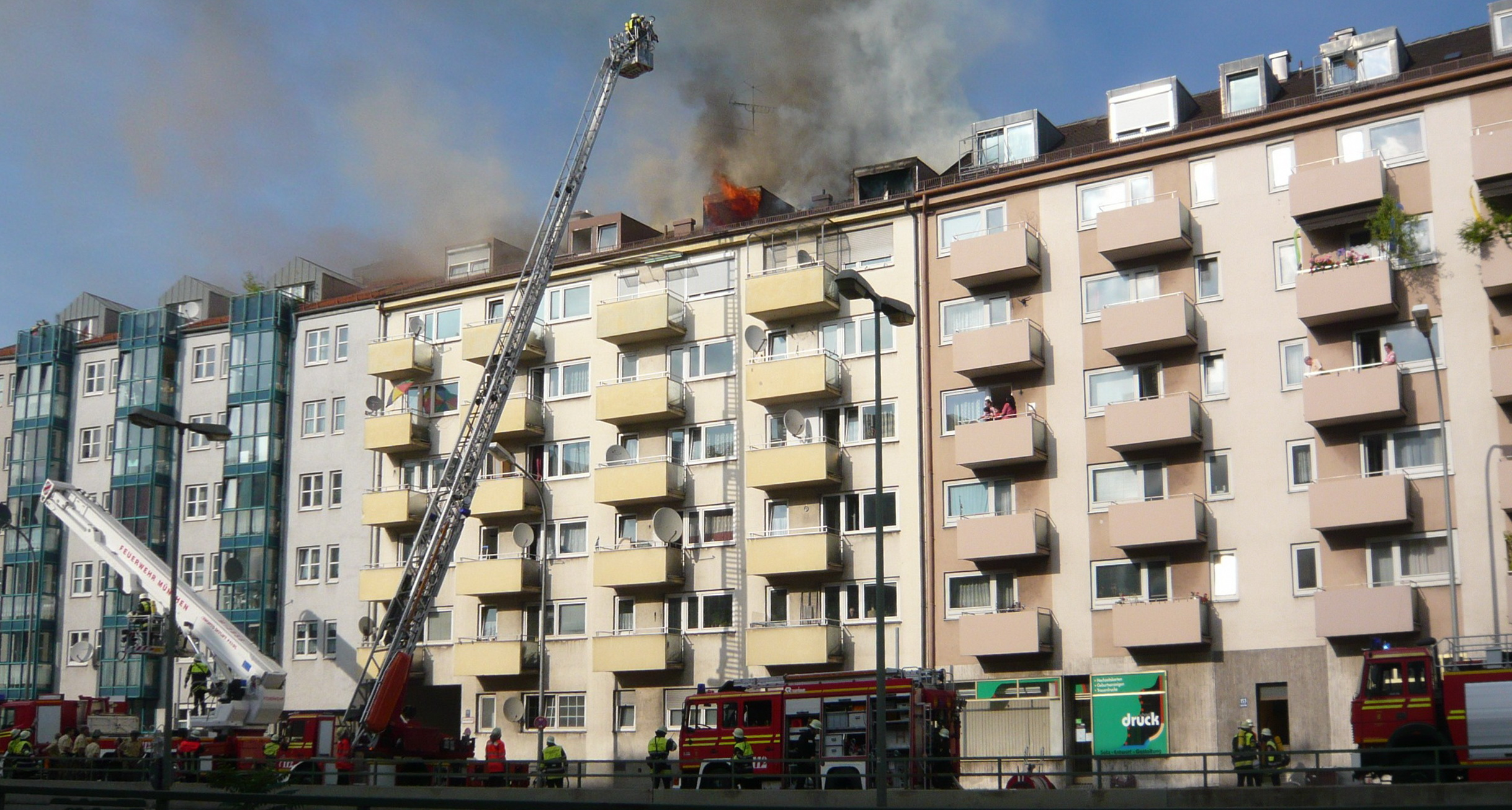 Fire-fighting by Munich firefighters at a fire in Munich.